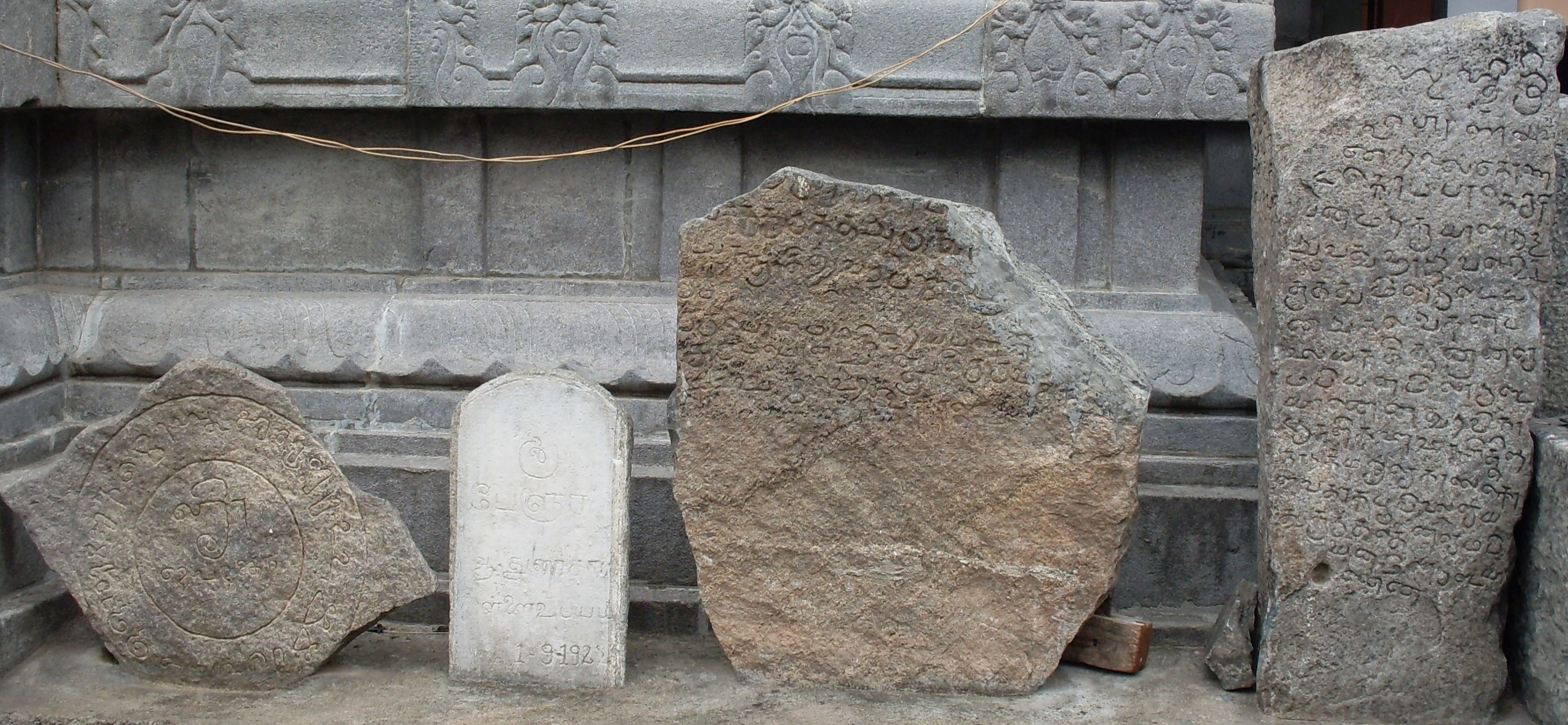 Belur Thanthondreeswarar Temple Carvings